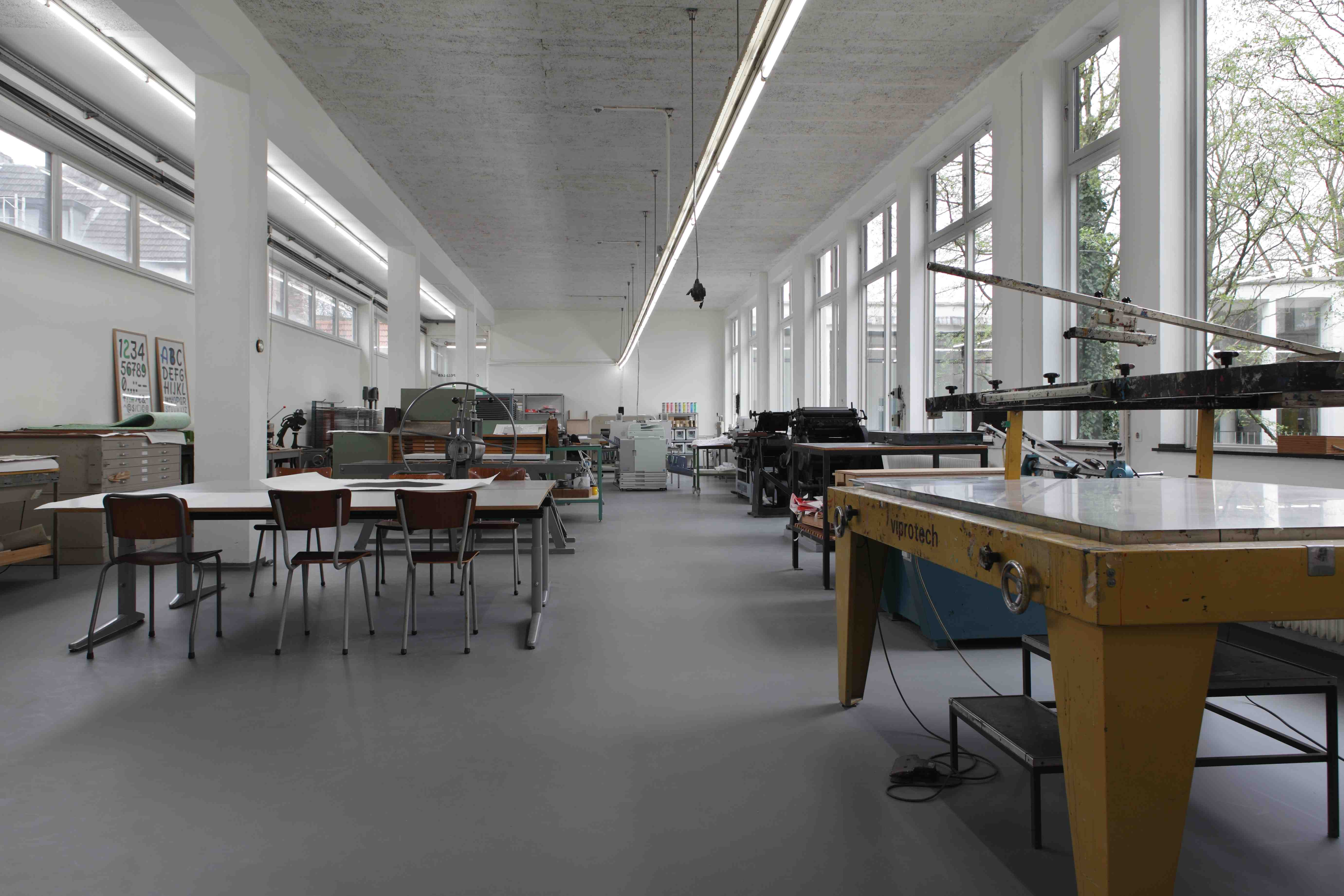 Charles Nypels Print Lab